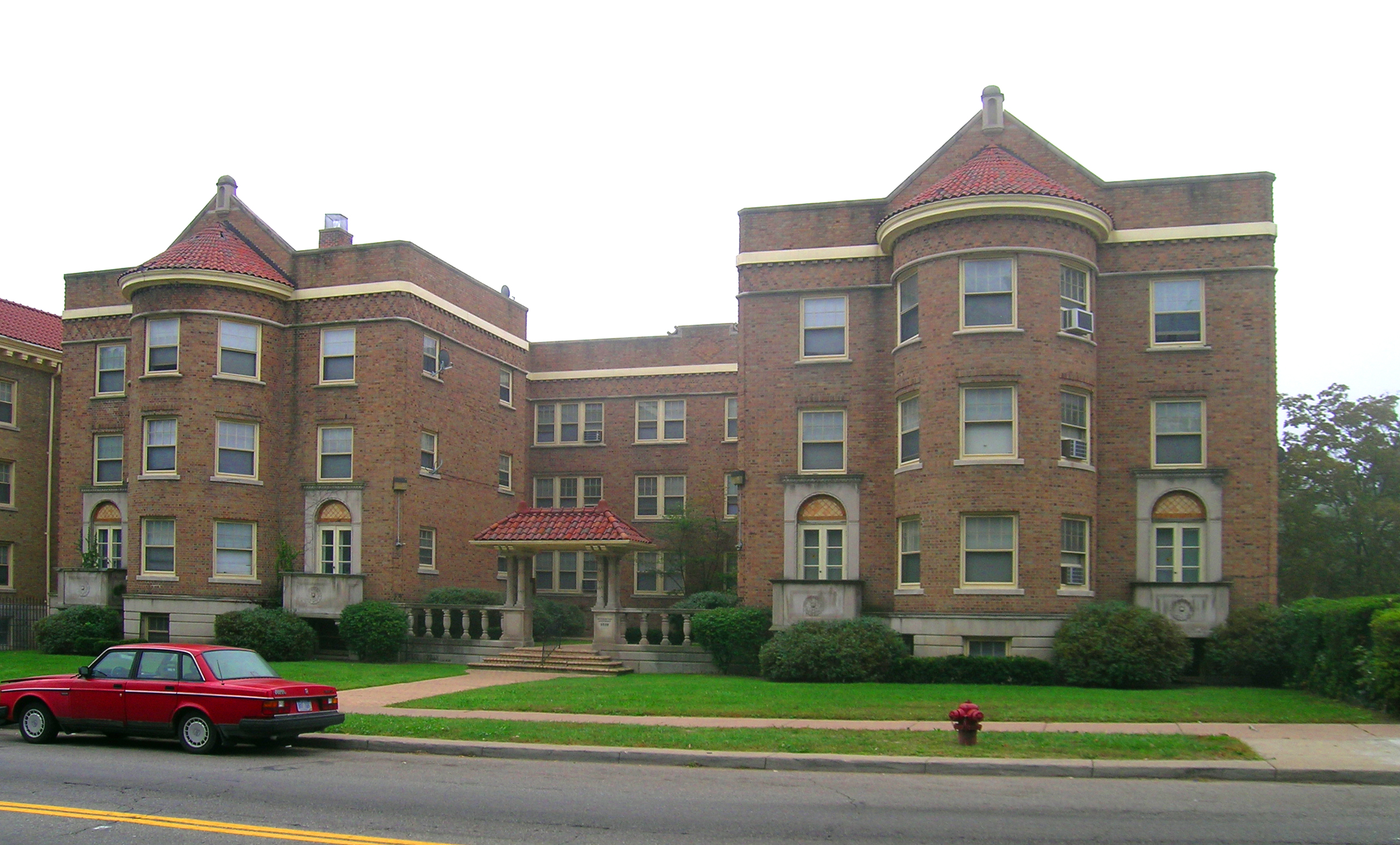 2025 McNichols in the Palmer Park Apartment Buildings, Detroit MI